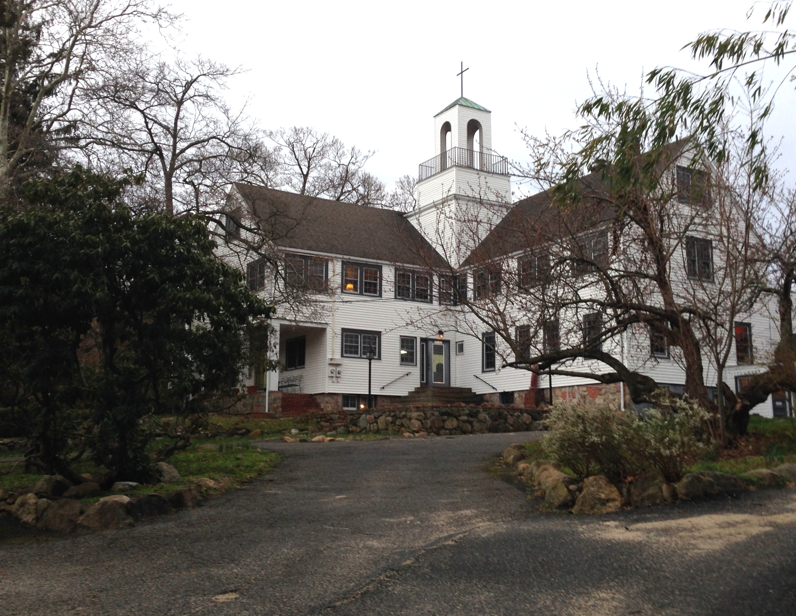 Little Portion Friary in Mount Sinai, New York